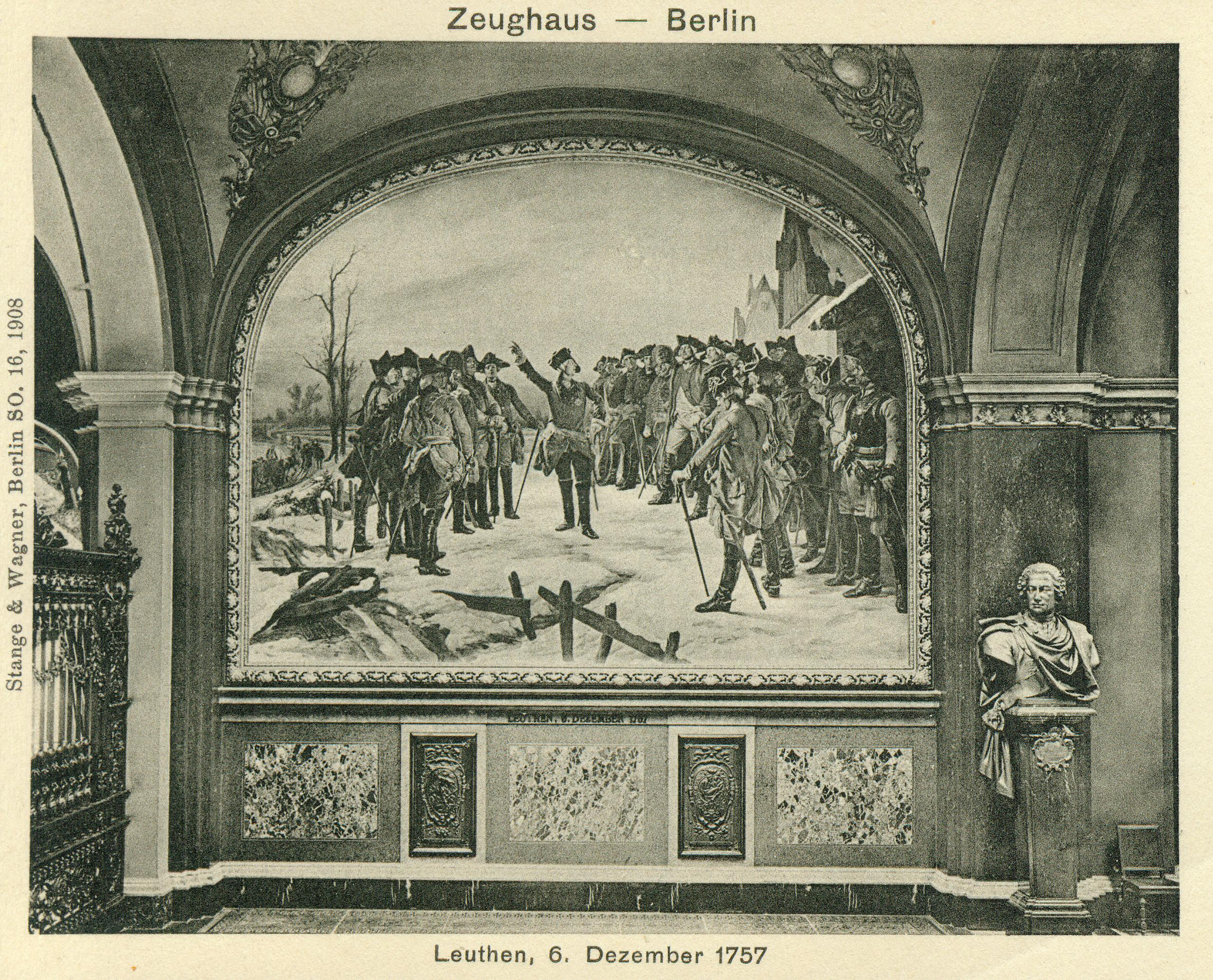 Ruhmeshalle Berlin, wallpainting by Fritz Roeber